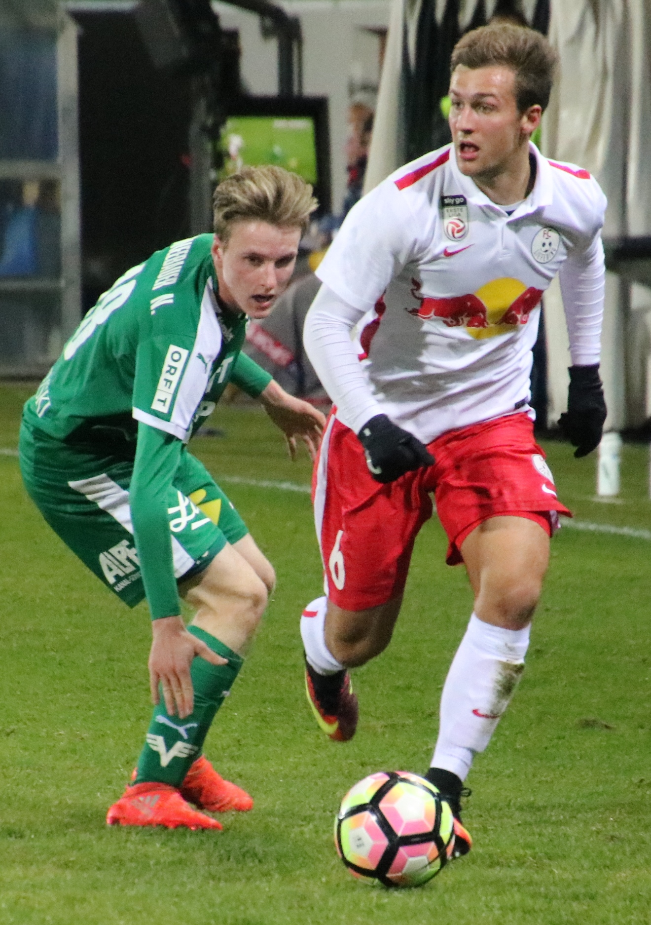 league match Austria 2nd league